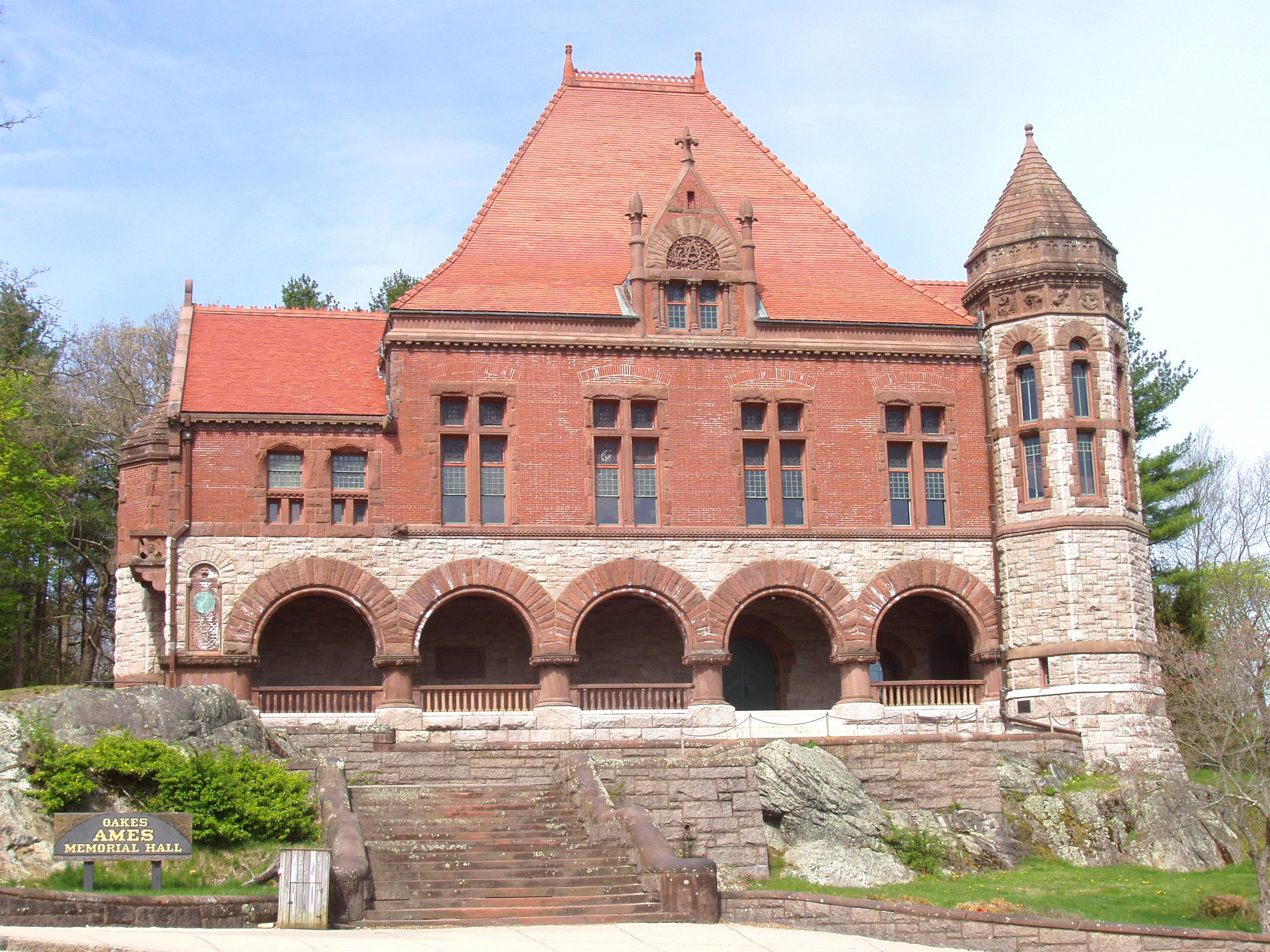 Oakes Ames Memorial Hall, North Easton, Massachusetts, USA. H. H. Richardson, architect, with grounds by Frederick Law Olmsted. Front facade.